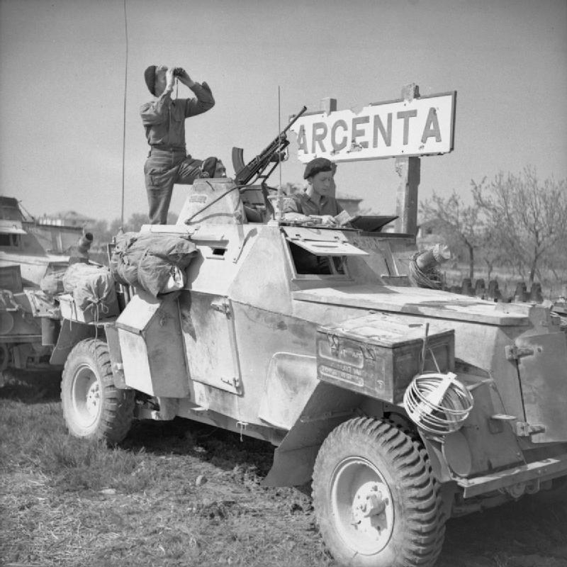 The British Army in Italy 1945 Humber light reconnaissance cars of 56th Recce Regiment in Argenta, 18th April 1945.